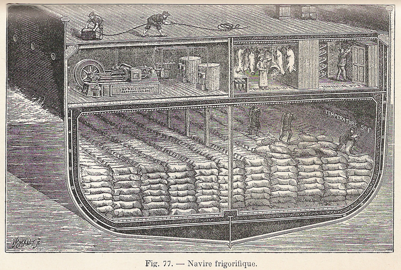 Illustrated in Antonin Rolet, "Canned vegetables, meat products of poultry and dairy", and JB Baillere son, Paris, 1913